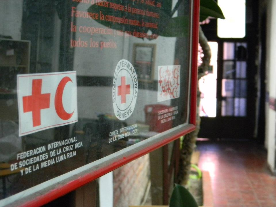 "Youth Santiago" subsidiary Interior , belonging to the Chilean Red Cross. He is currently the only subsidiary of the Red Cross exclusively youth in Chile.